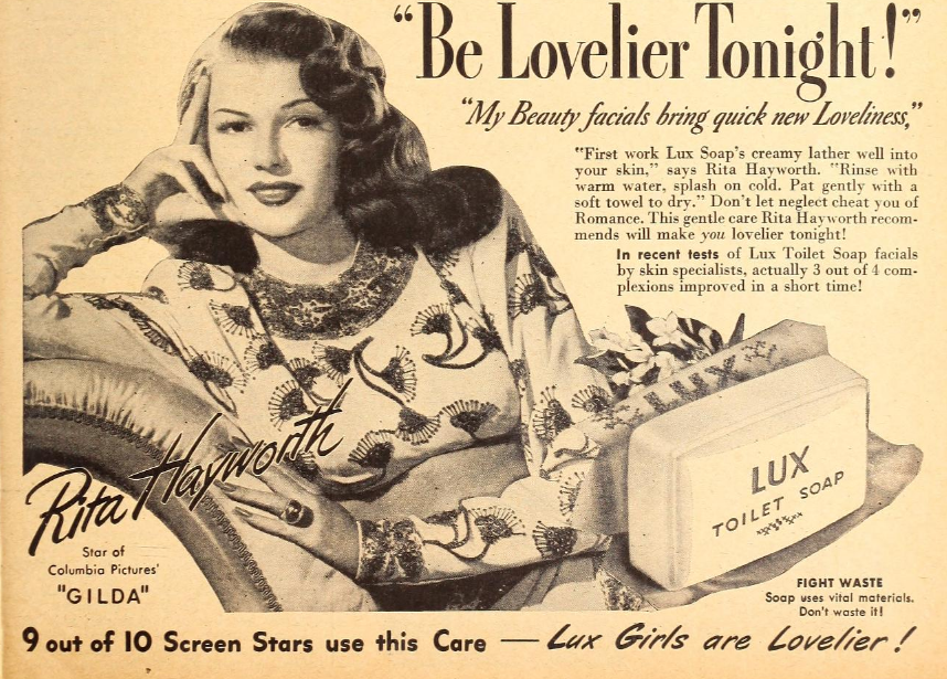 Rita Hayworth: Be Lovelier Tonightǃ (Lux Toilet Soap) 1946